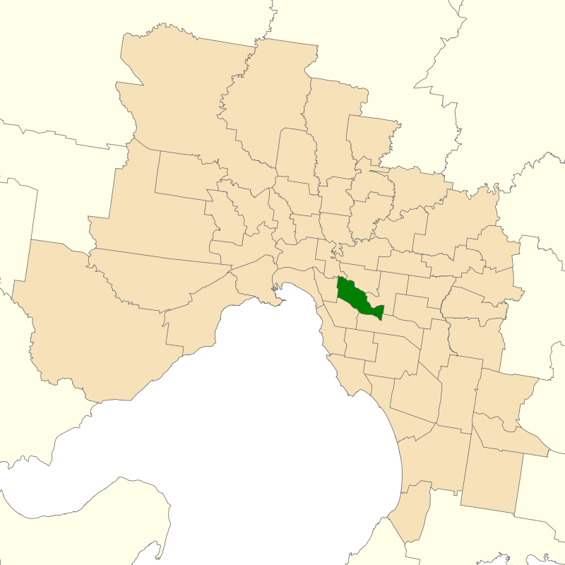 Location of the Victorian electoral district of Malvern (dark green) in the Greater Melbourne area.